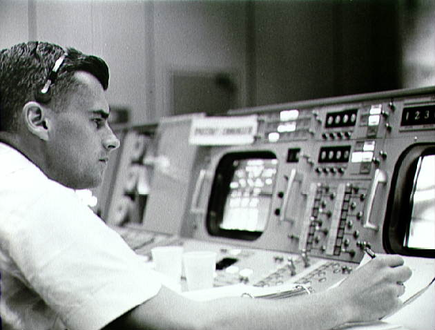 Astronaut Roger B. Chaffee is shown at the consoles in the Mission Control Center - Houston during the Gemini-Titan 3 flight.